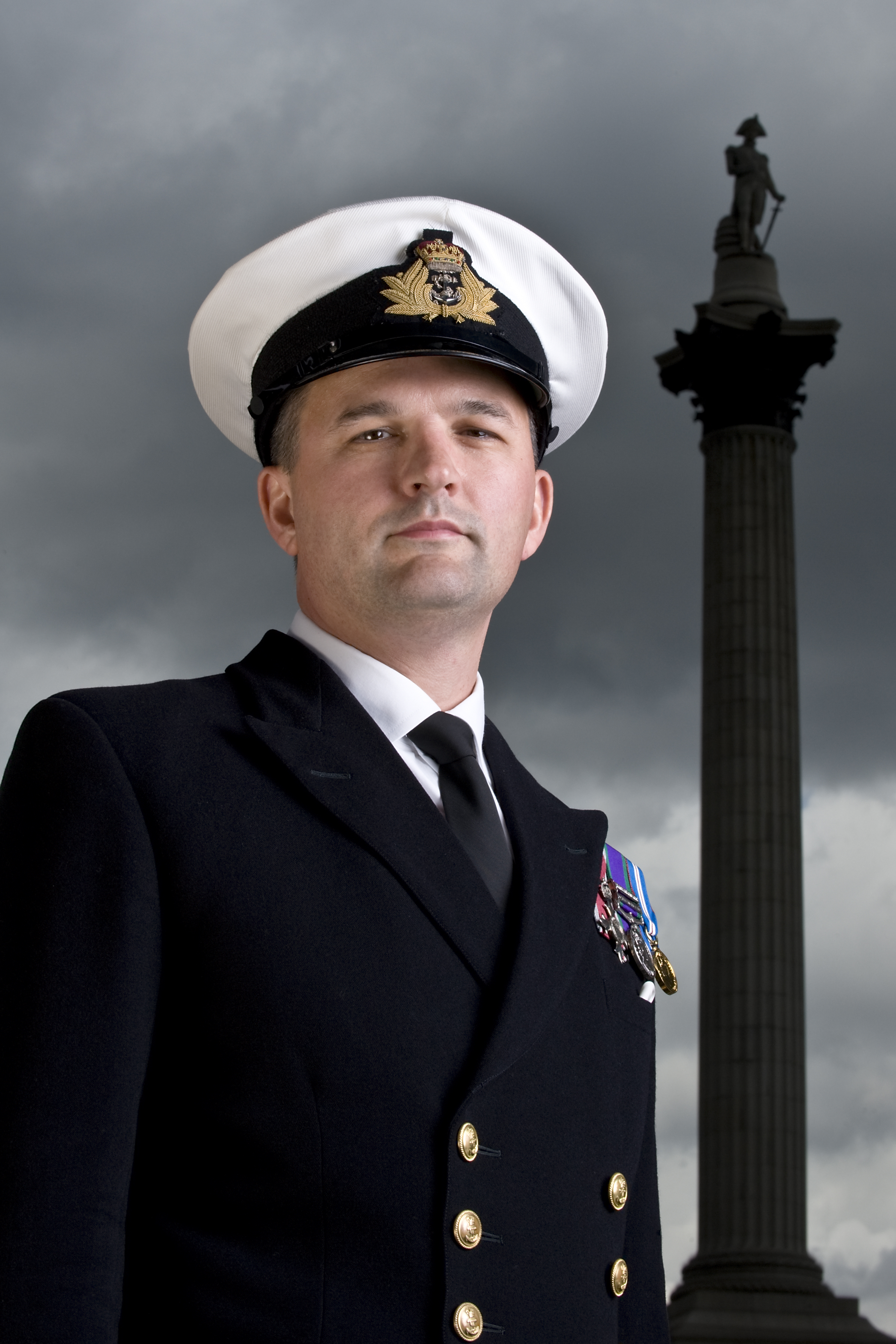 Craig in Trafalgar Square